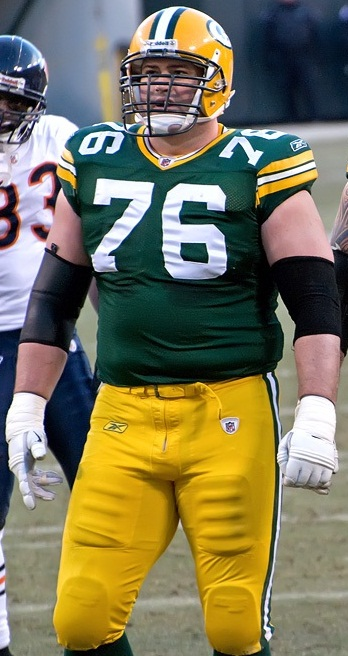 Lambeau Field - January 2, 2011. Photo by Mike Morbeck.